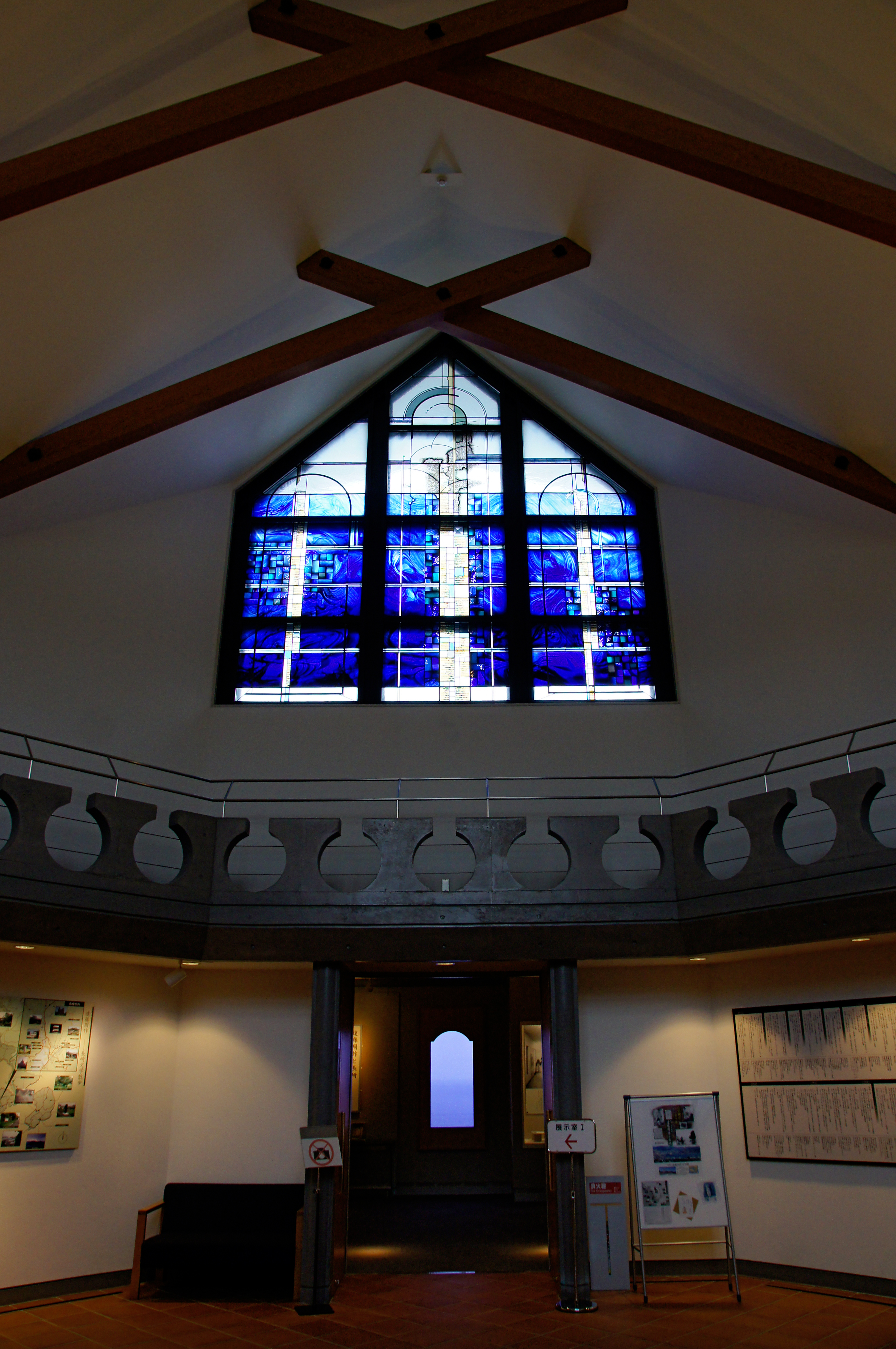 Syusaku Endo Literature Museum in Sotome-cho, Nagasaki City, Nagasaki prefecture, Japan